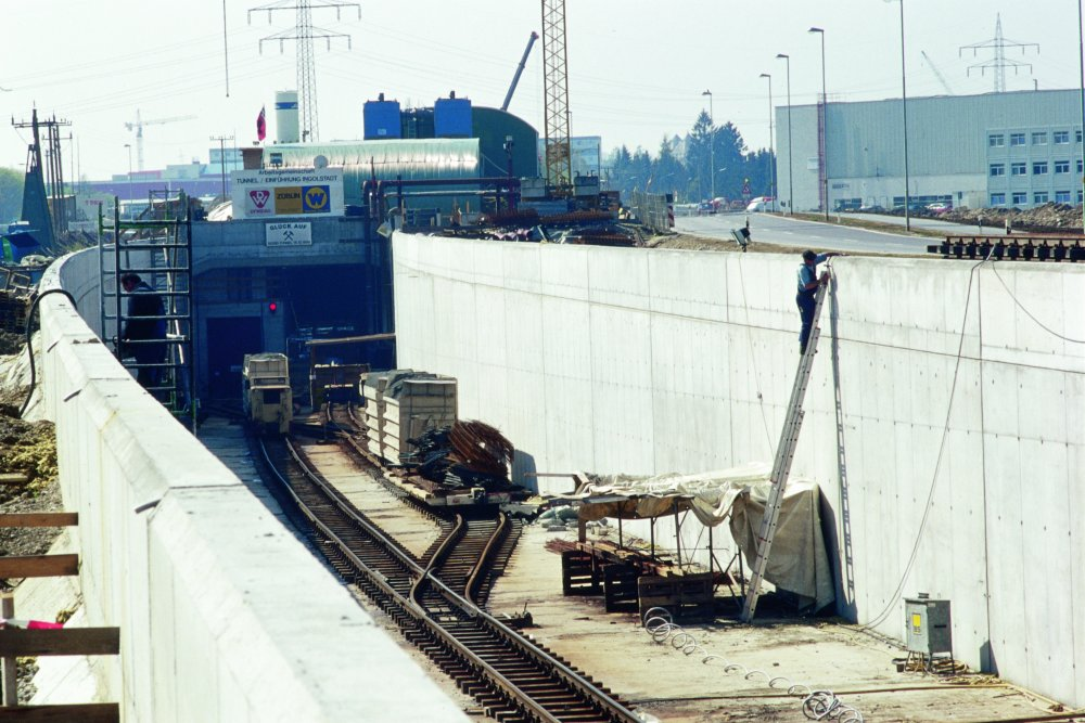 The south entrance to the Audi Tunnel during construction.